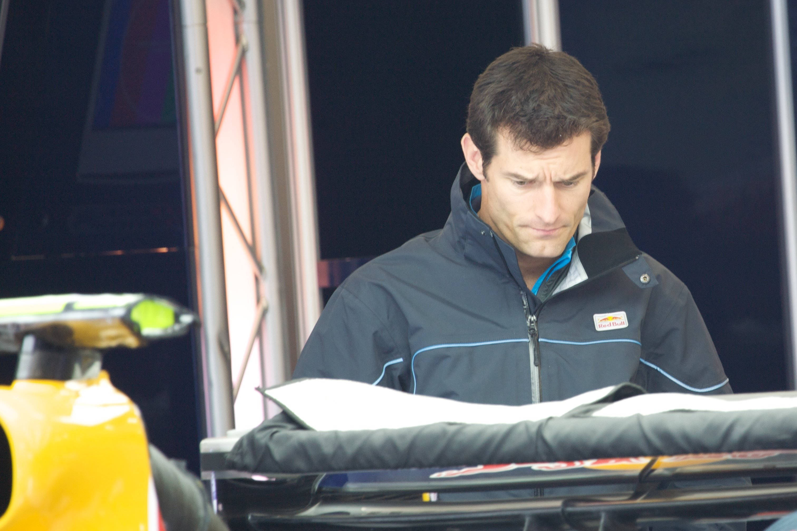 Mark Webber at the 2008 Belgian Grand Prix.